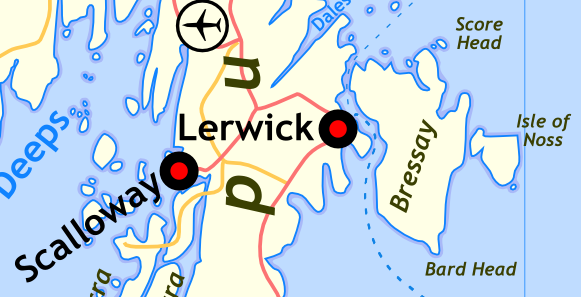 Card of Lerwick, Shetland